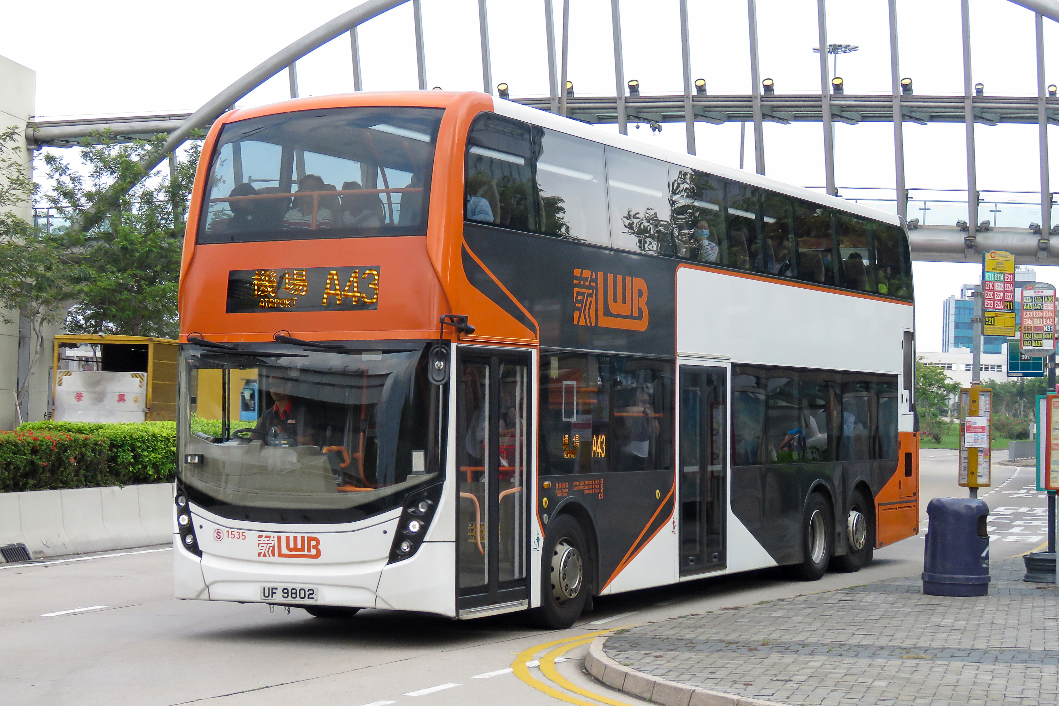 For those A43 leaving Fanling from 6:40 to 8:10, they serve Cathay City.